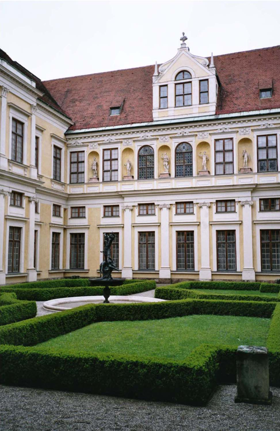 Grottenhof, Residenz Munich